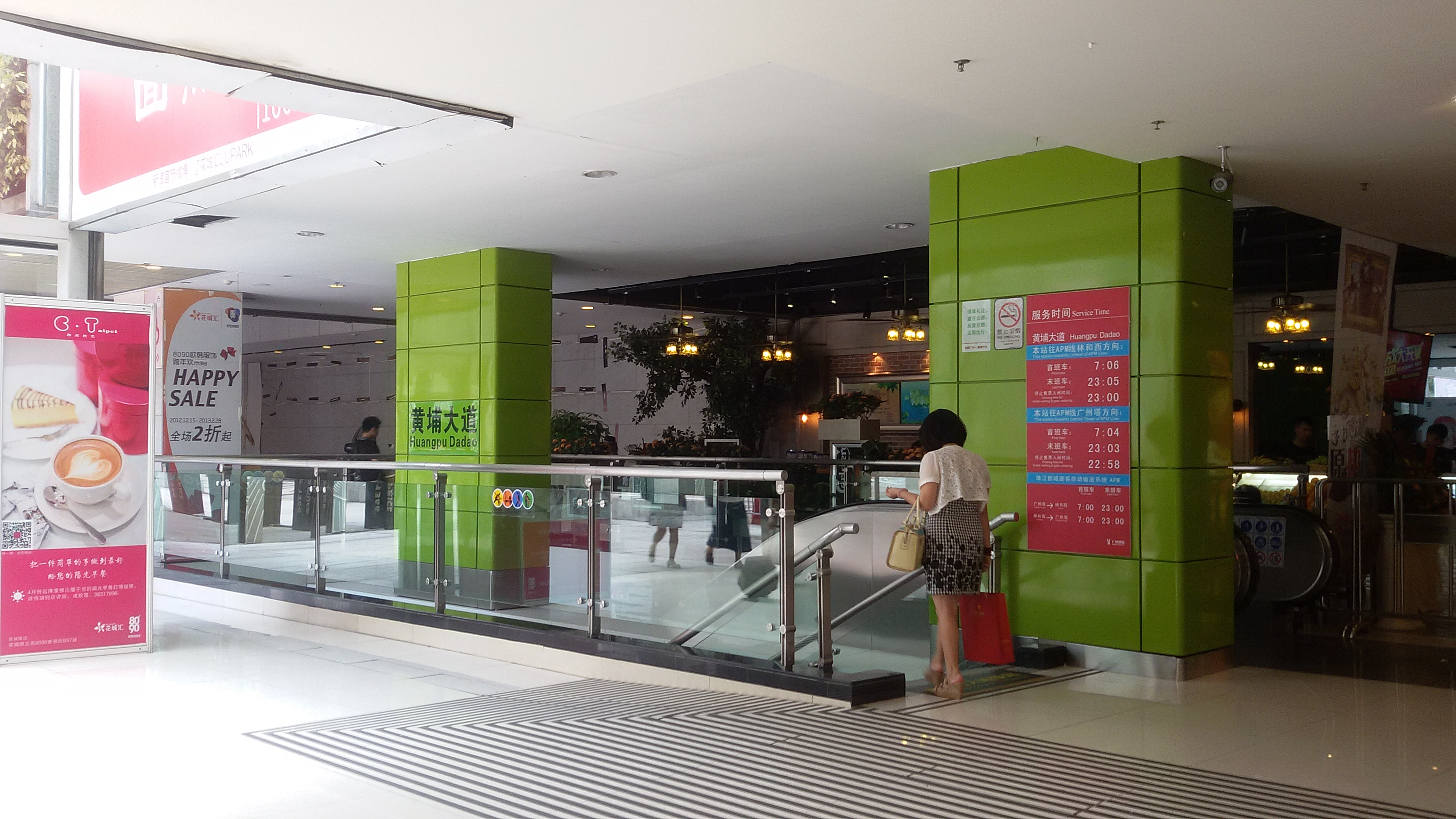 Only an Exit for Huangpu Dadao Station, Guangzhou Metro 粵語: 廣州地鐵，黃埔大道站嘅唯一出入口。